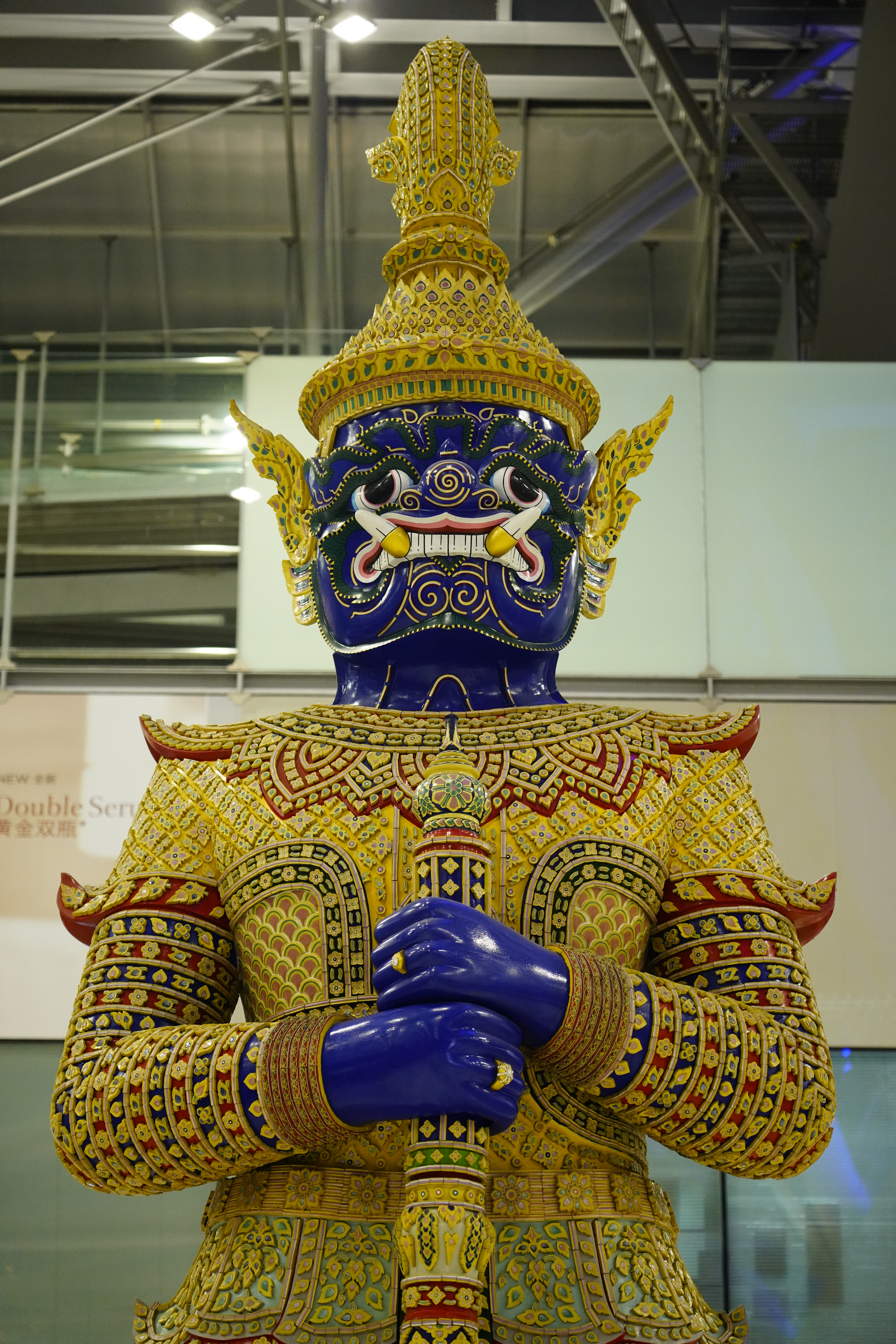 Viruncamban Statue at Suvarnabhumi Airport, Bangkok